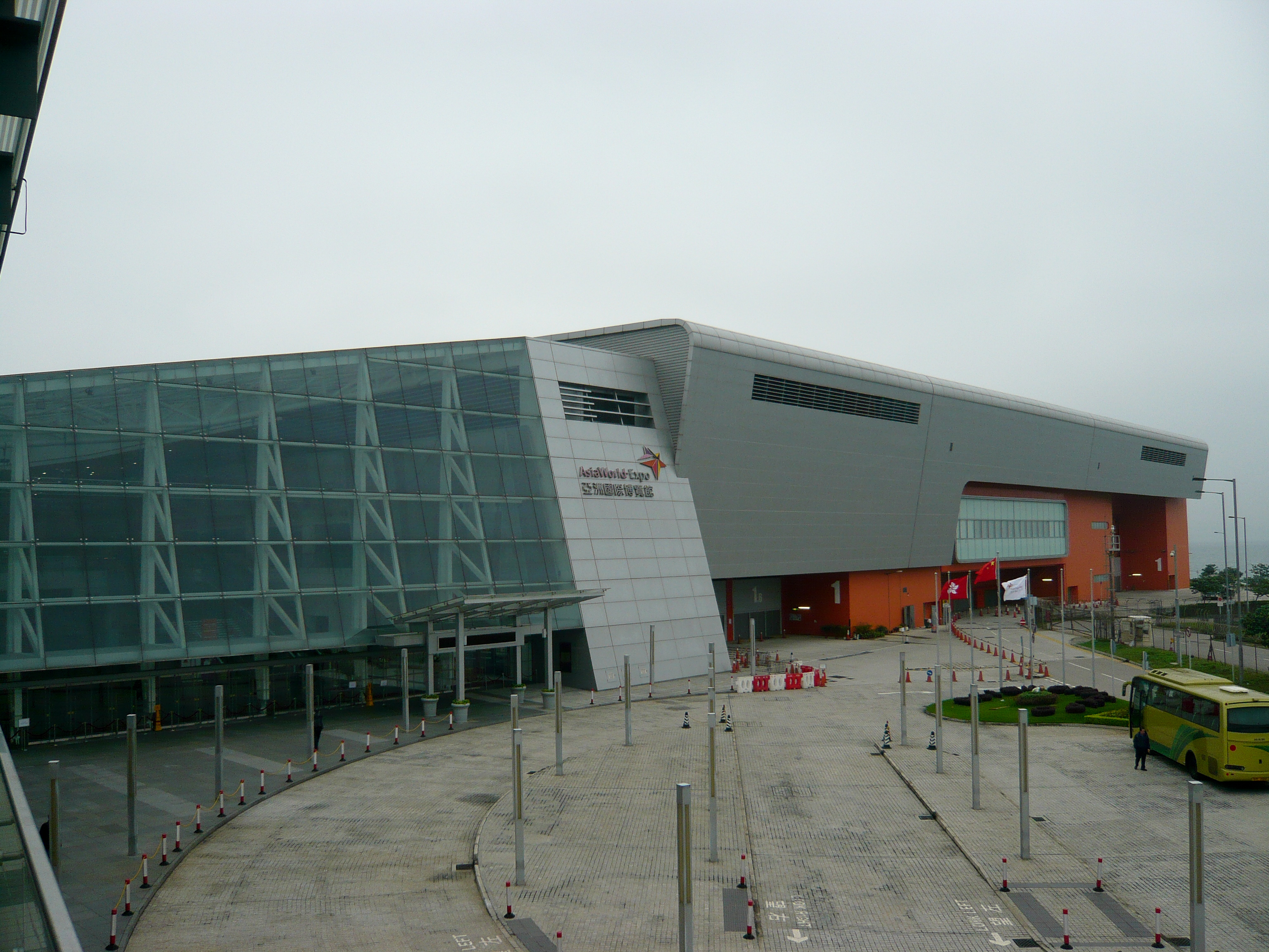 AsiaWorld-Expo, Hong Kong